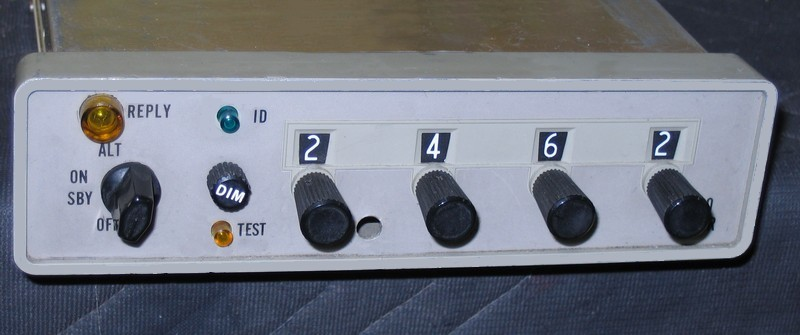 A transponder